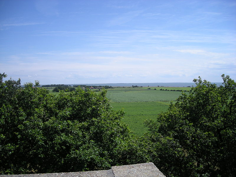 Air tower in Oudermirdum, The Netherlands.